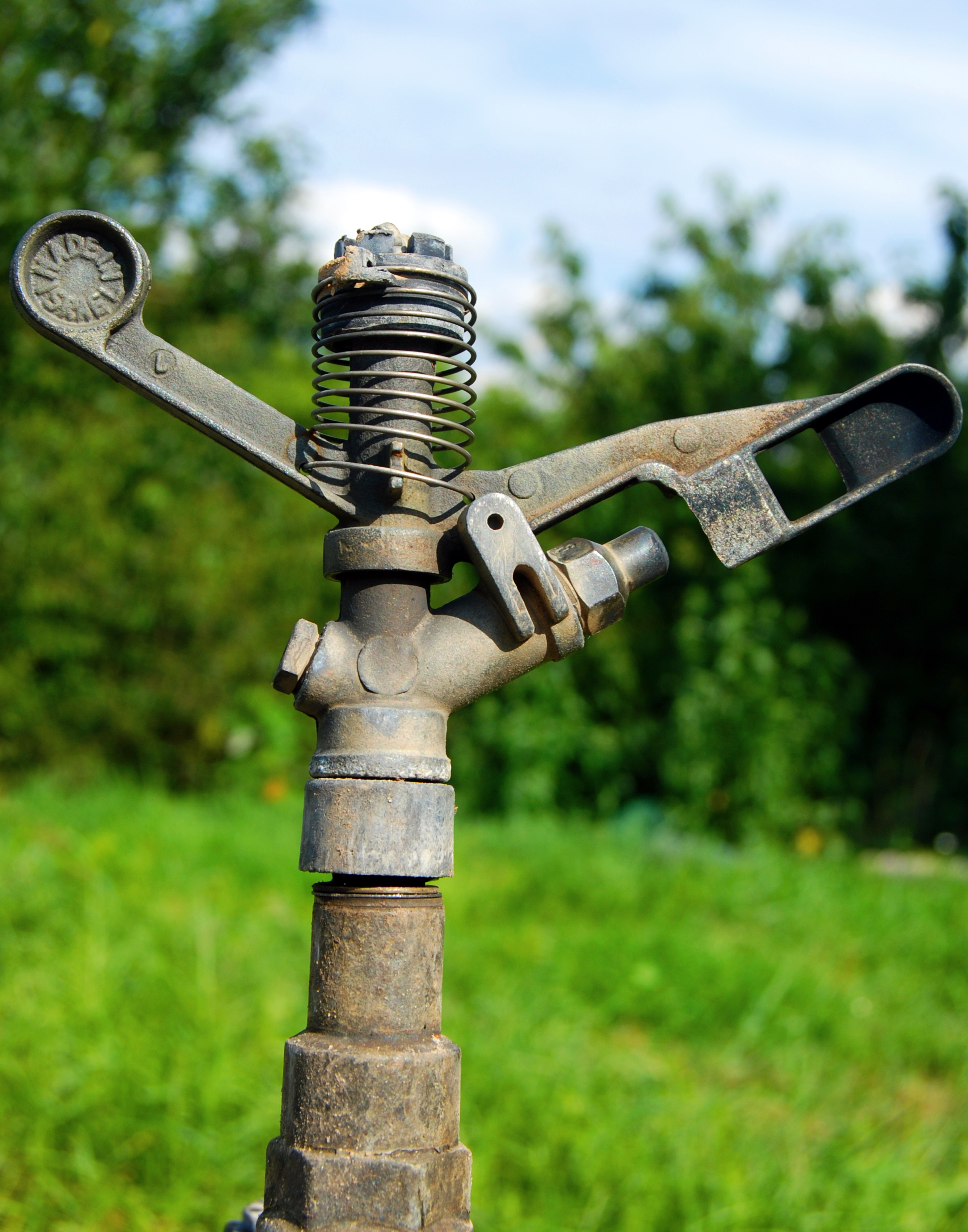 Zraszacz